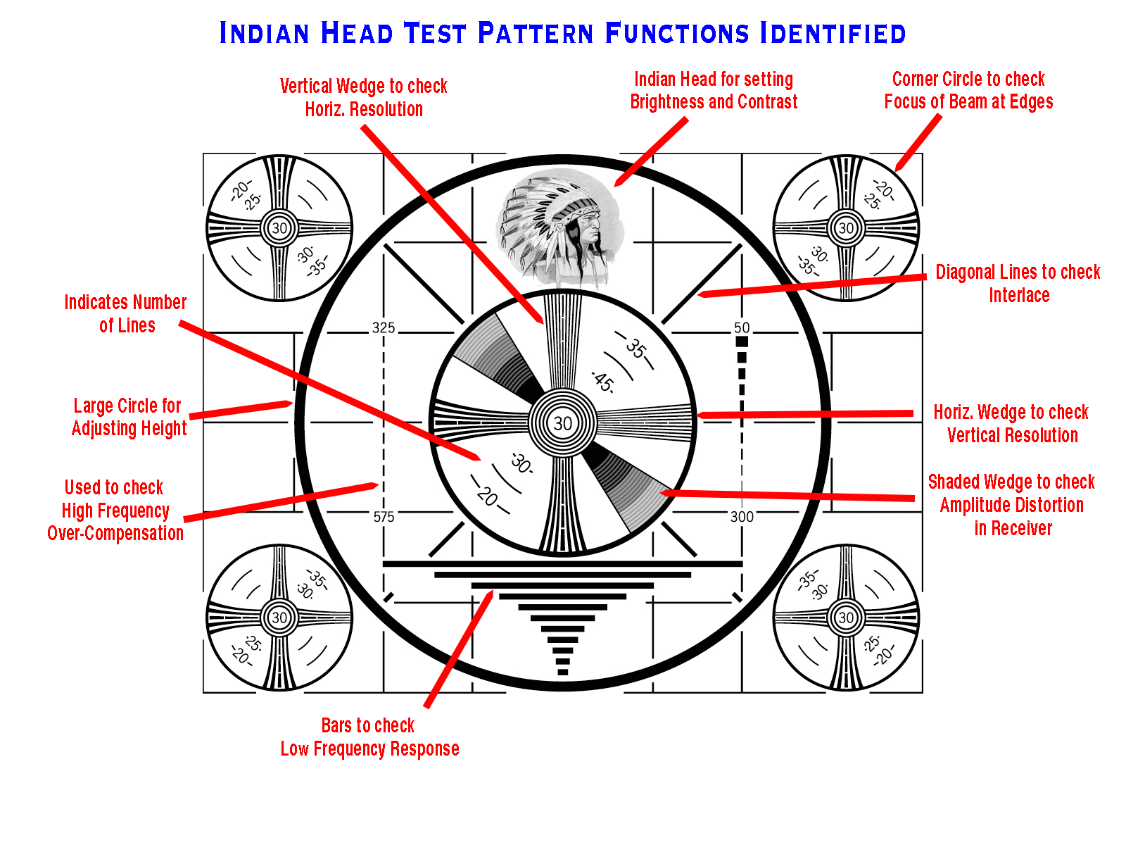 Image used to adjust television (CRT) screen; Labels added to Public Domain Image; Converted to PNG with PhotoShop